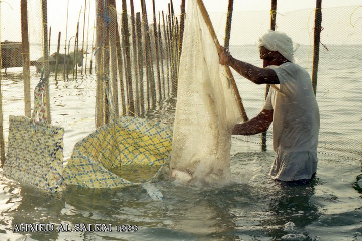 Fisher man in Hozoor (fish trip), Qatif 1993